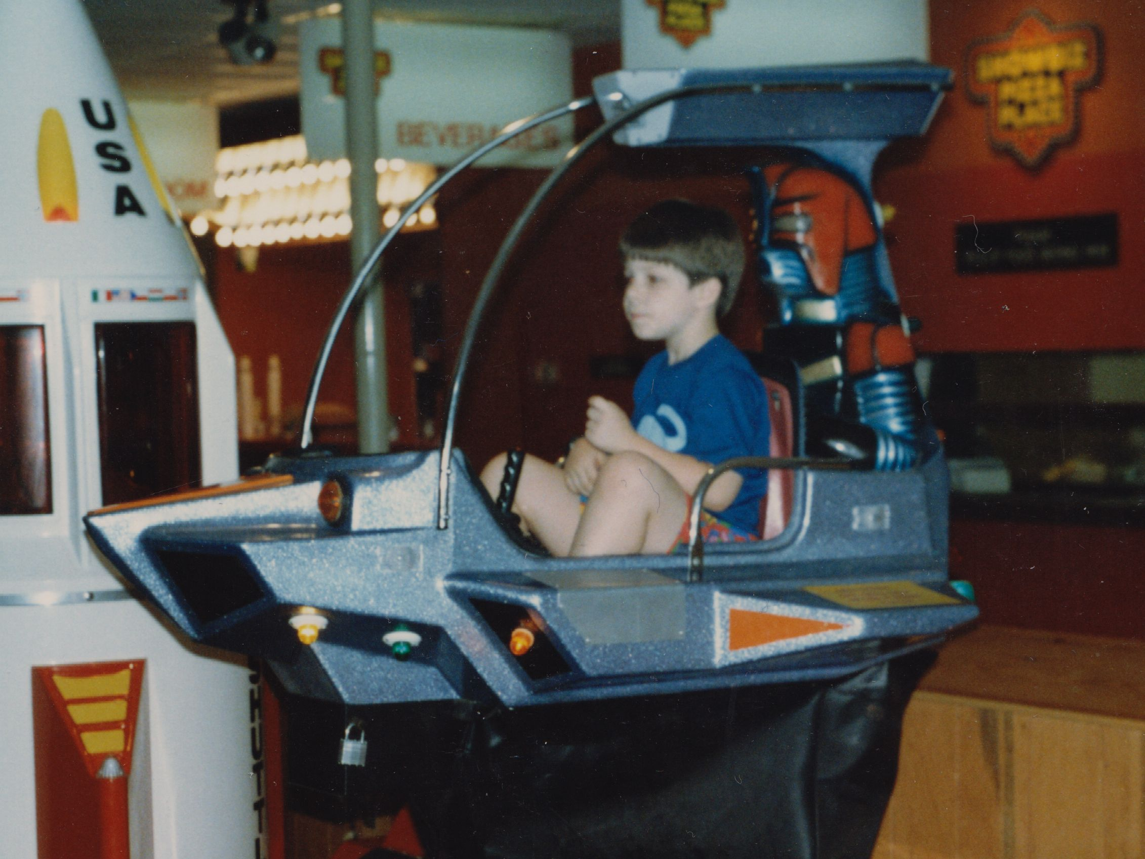 A child rides a ride at the Showbiz Pizza location in Fayetteville, Arkansas in May 1987. The child is Ben Schumin, i.e. User:SchuminWeb.